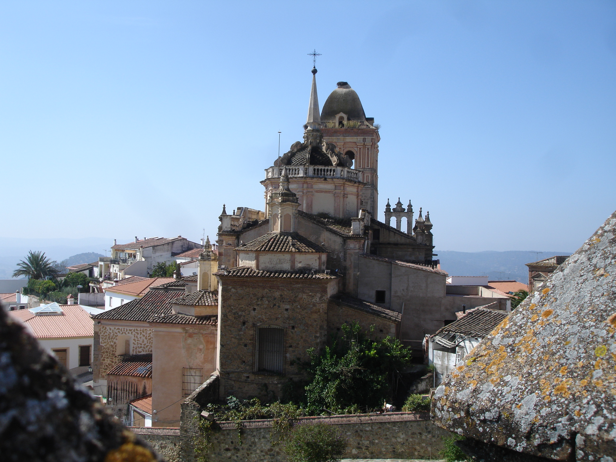 Santa María de la Encarnación church in Jerez de los Caballeros (Spain)